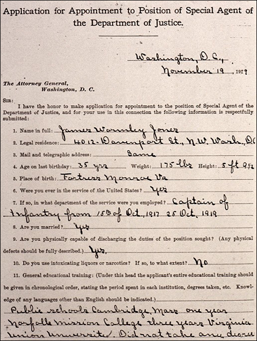 James Wormley Jones' application to join the FBI. He is generally known as the FBI's first African American special agent.